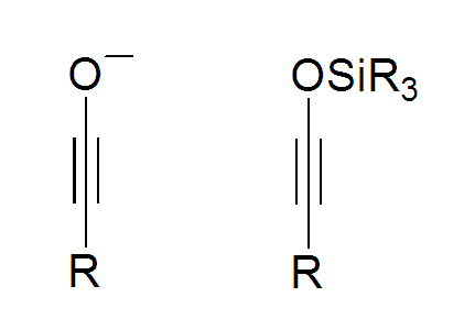 Molecular structure of ynolates. Made by me and free for all to use.